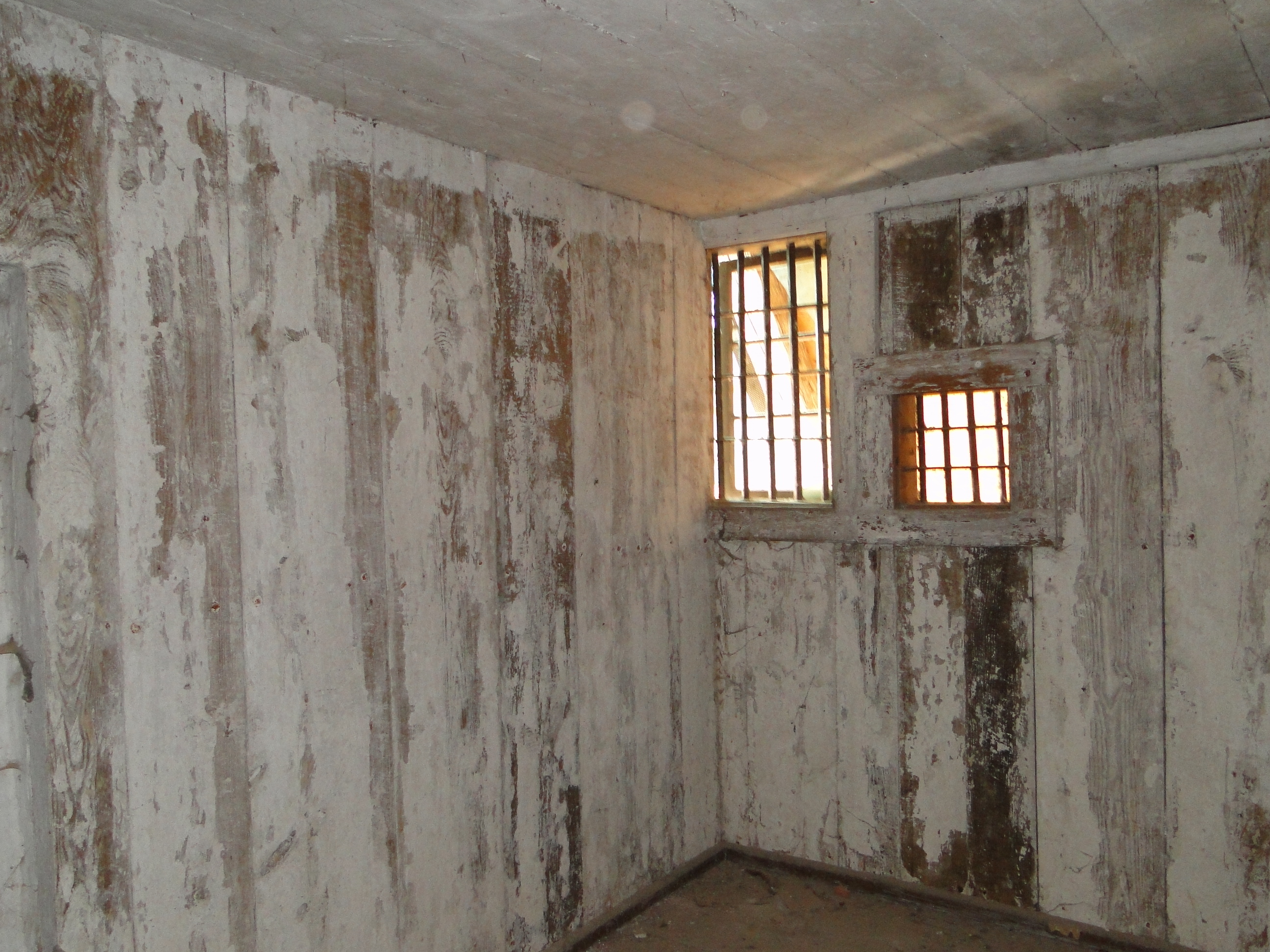 Monastery in Dobbertin, district Parchim, Mecklenburg-Vorpommern, Germany